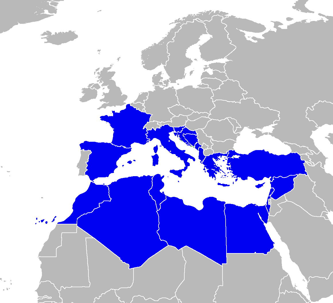 Map showing countries which have ratified the Barcelona Convention for Protection against Pollution in the Mediterranean Sea.